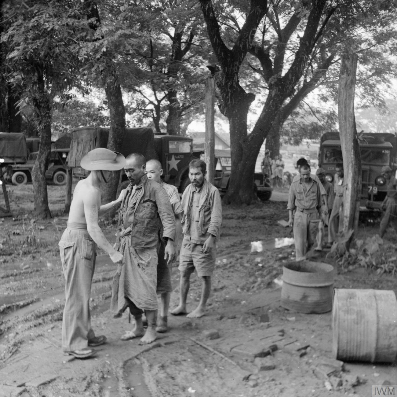 The British Army in Burma 1945 Japanese prisoners from the Penwegon area are searched, 30 July 1945.